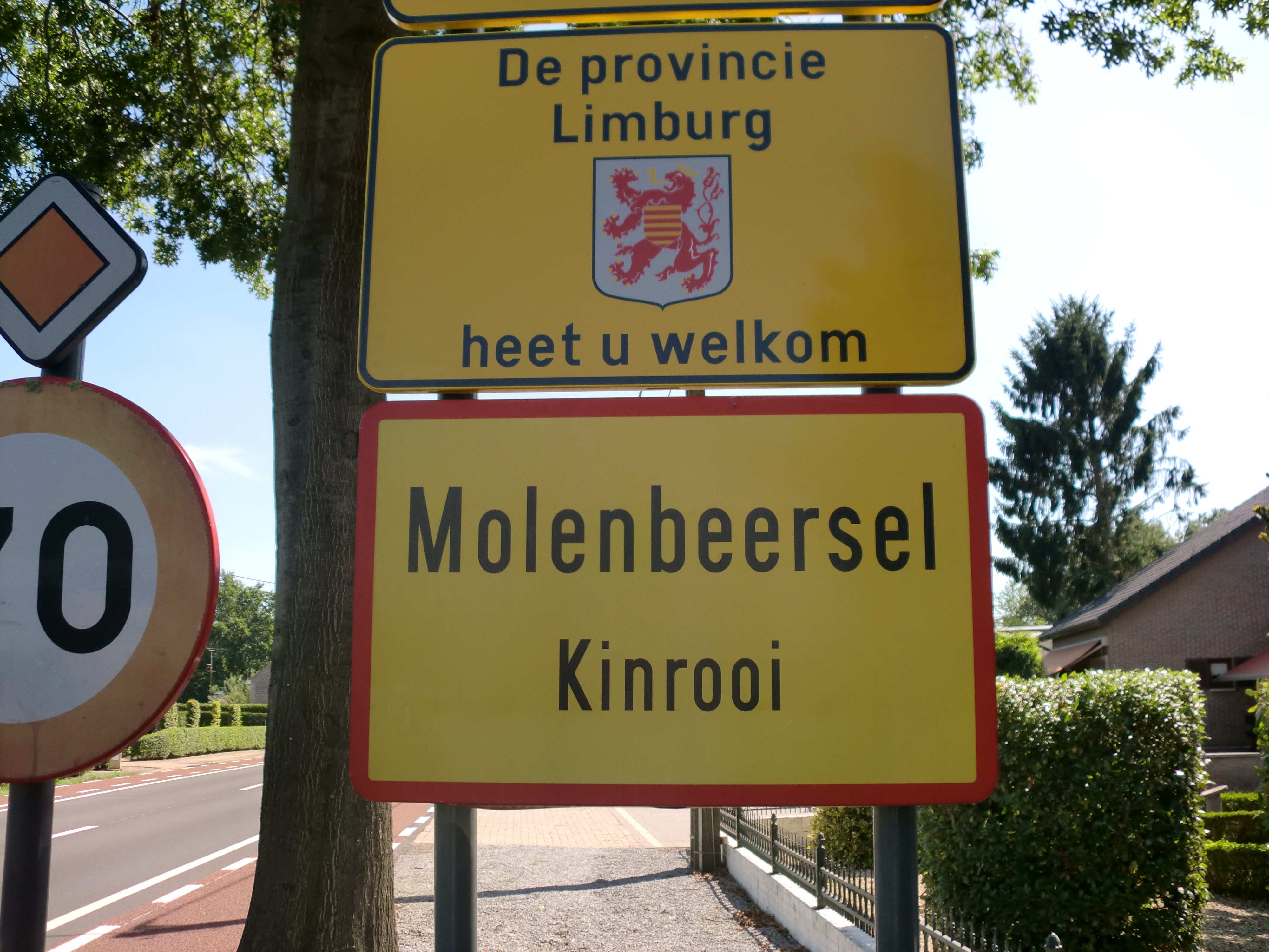 Place name sign of Molenbeersel, Municipality of Kinrooi, Province of Limburg in Belgium